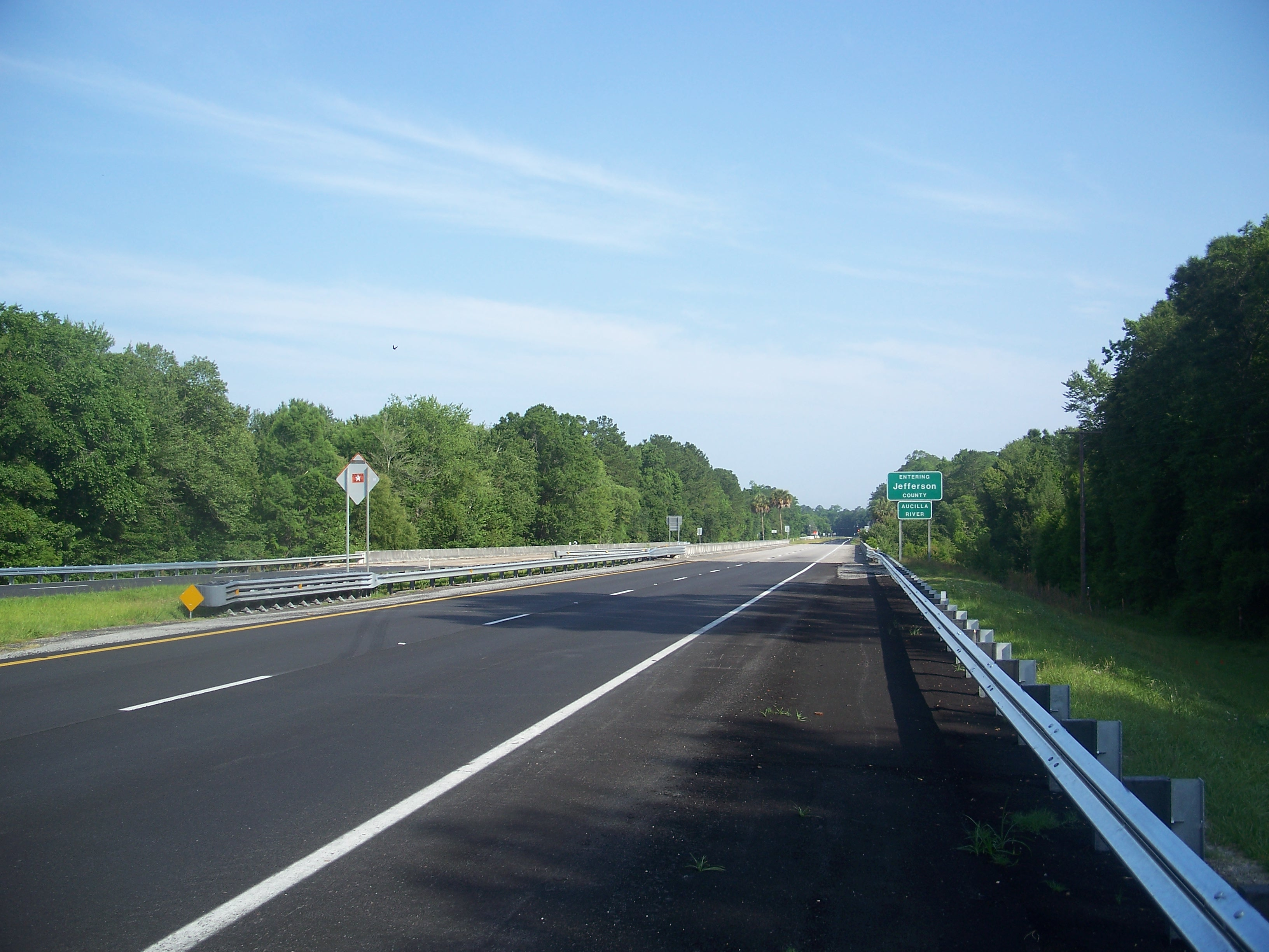 Lamont, Florida: Bridge over Aucilla River, which is the border between Jefferson and Madison counties